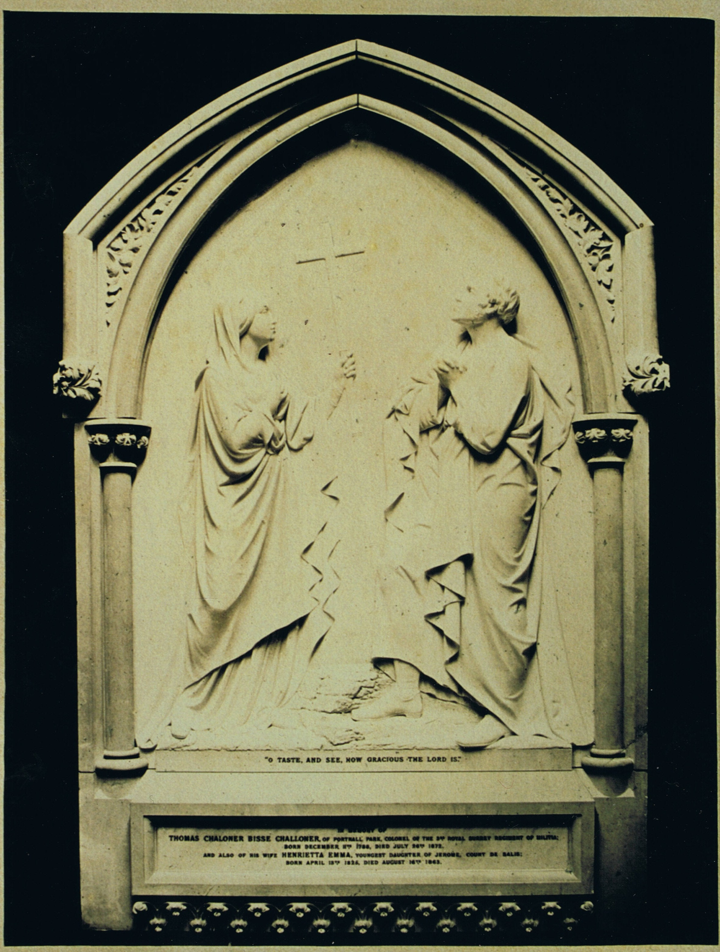 A photograph of a memorial to Colonel Thomas-Chaloner Bisse-Challoner and his wife Henrietta Emma Helena de Salis in Christ Church, Virginia Water, Surrey, England, UK. The inscription on the memorial reads: "O TASTE, AND SEE, HOW GRACIOUS THE LORD IS." [Psalm 34:8] IN MEMORY OF / THOMAS CHALONER BISSE CHALLONER, OF PORTNALL PARK, COLONEL OF THE 3RD ROYAL SURREY REGIMENT OF MILITIA; / BORN DECEMBER 11TH 1788, DIED JULY 26TH 1872; / AND ALSO OF HIS WIFE HENRIETTA EMMA, YOUNGEST DAUGHTER OF JEROME, COUNT DE SALIS; / BORN APRIL 13TH 1825 [?], DIED AUGUST 16TH 1863.